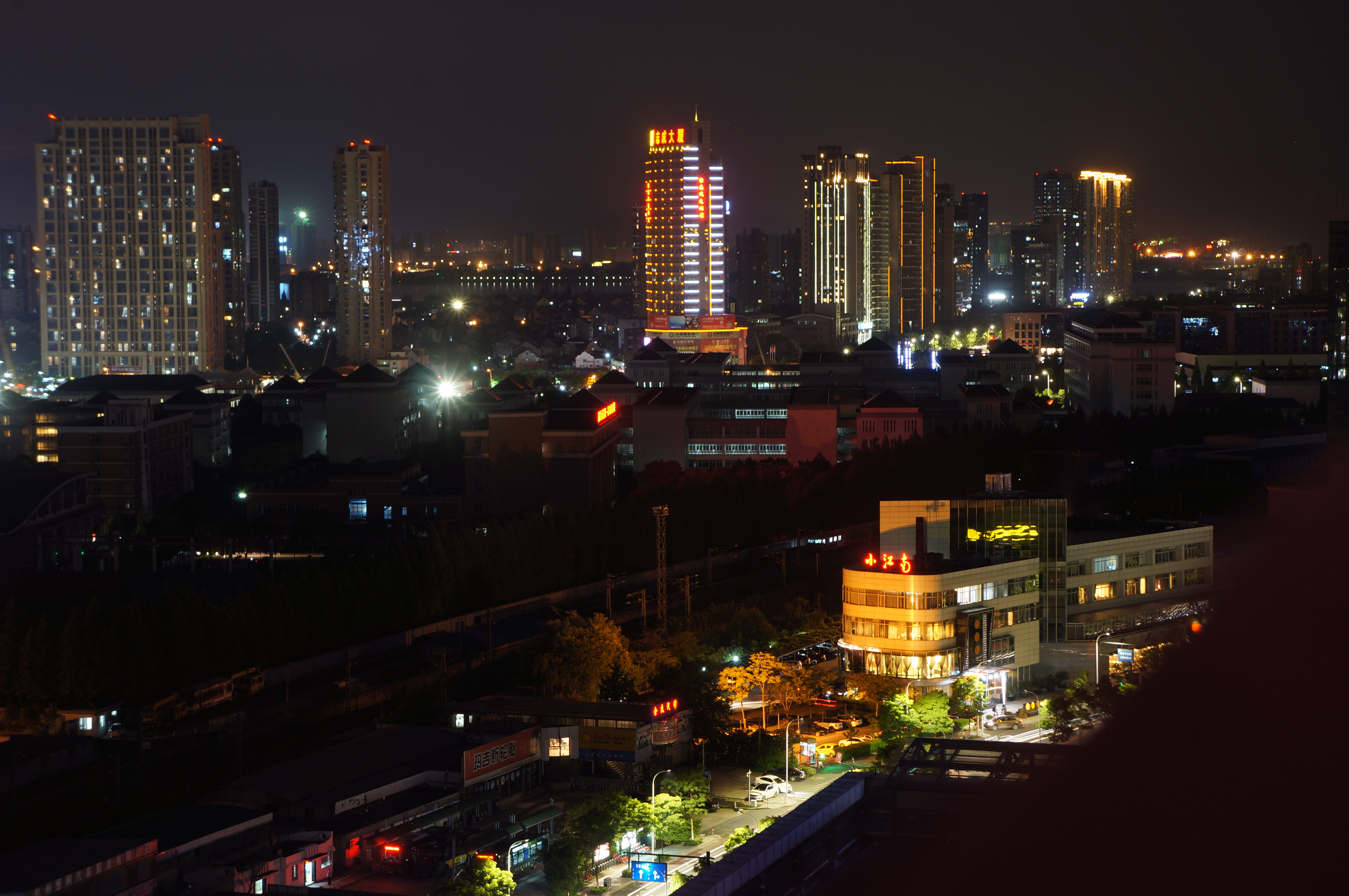 201607 Northern throat of Qiantangjiang Station, Qiantang River Bridge will come after this righturn curve